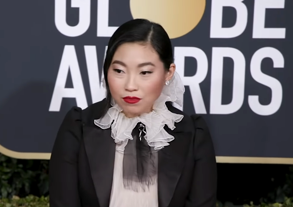 Awkwafina at the Golden Globes red carpet